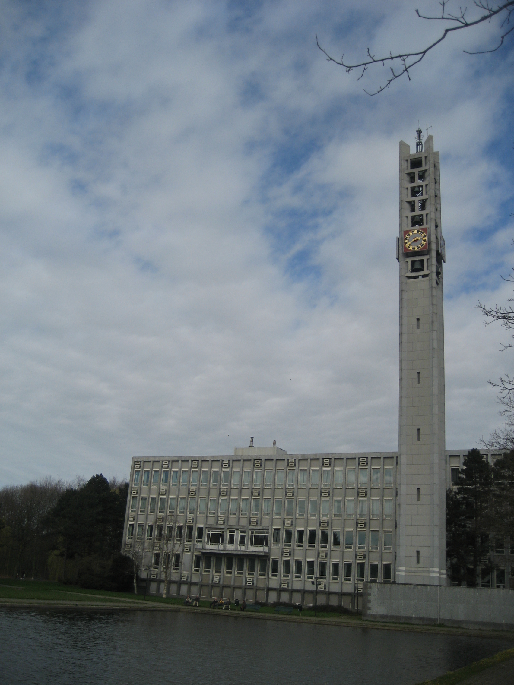 Former townhall, Rijswijk (The Netherlands). Architect J.C. van Buijtenen, ca. 1953-1955. Not in use since 2003